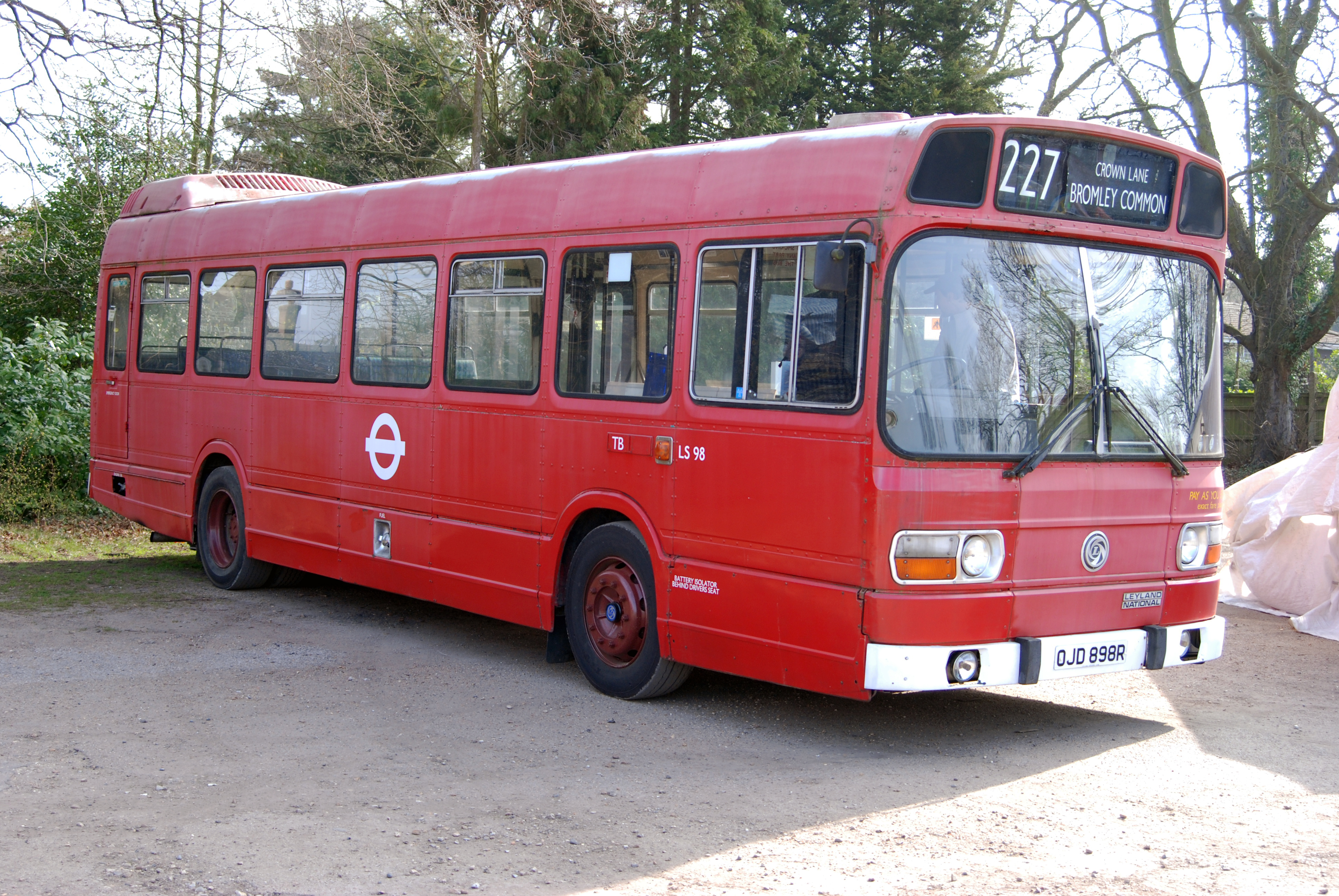 Sandown Park,Mar 2009